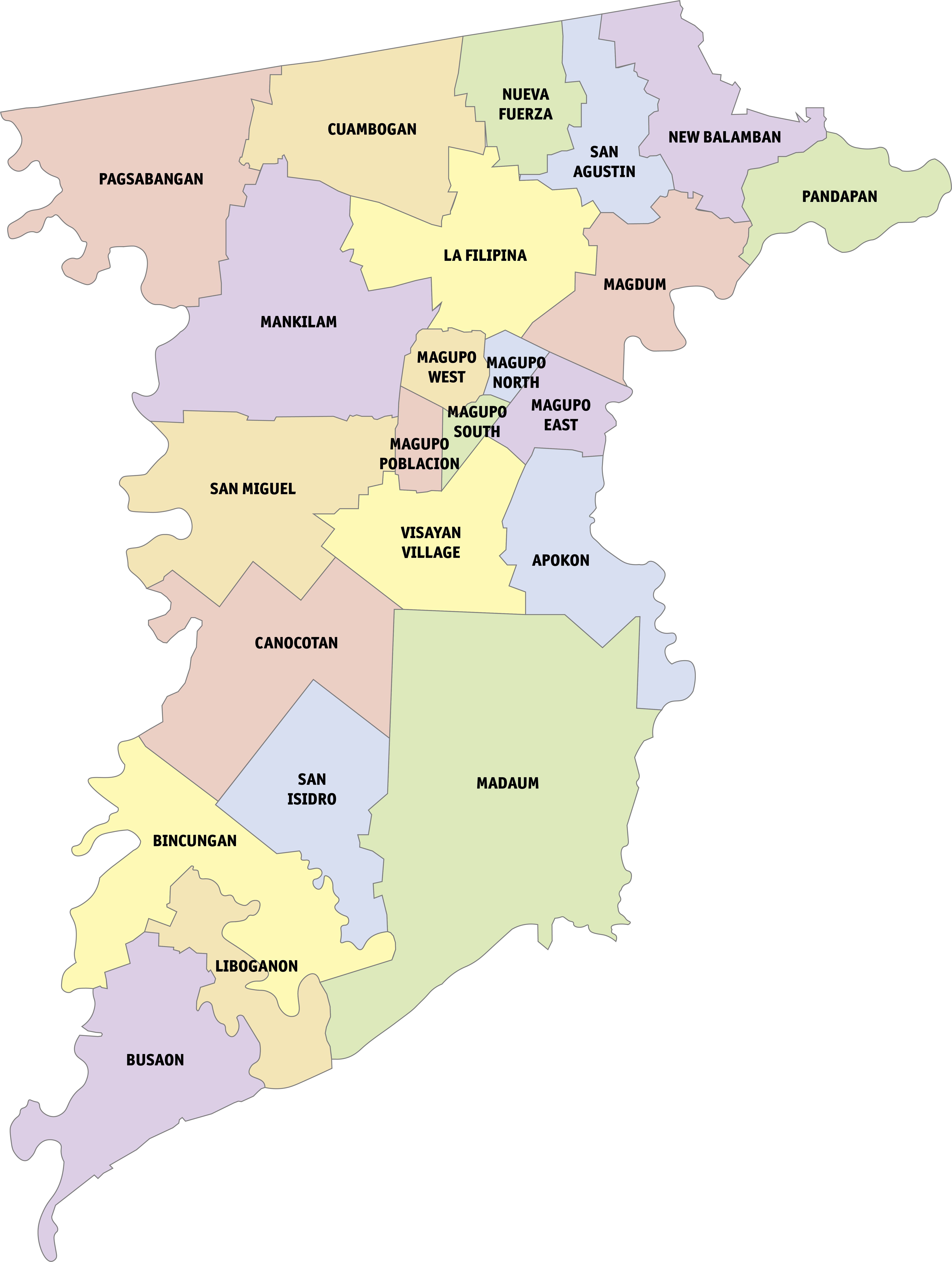 Map showing the barangays of Tagum City, Davao del Norte